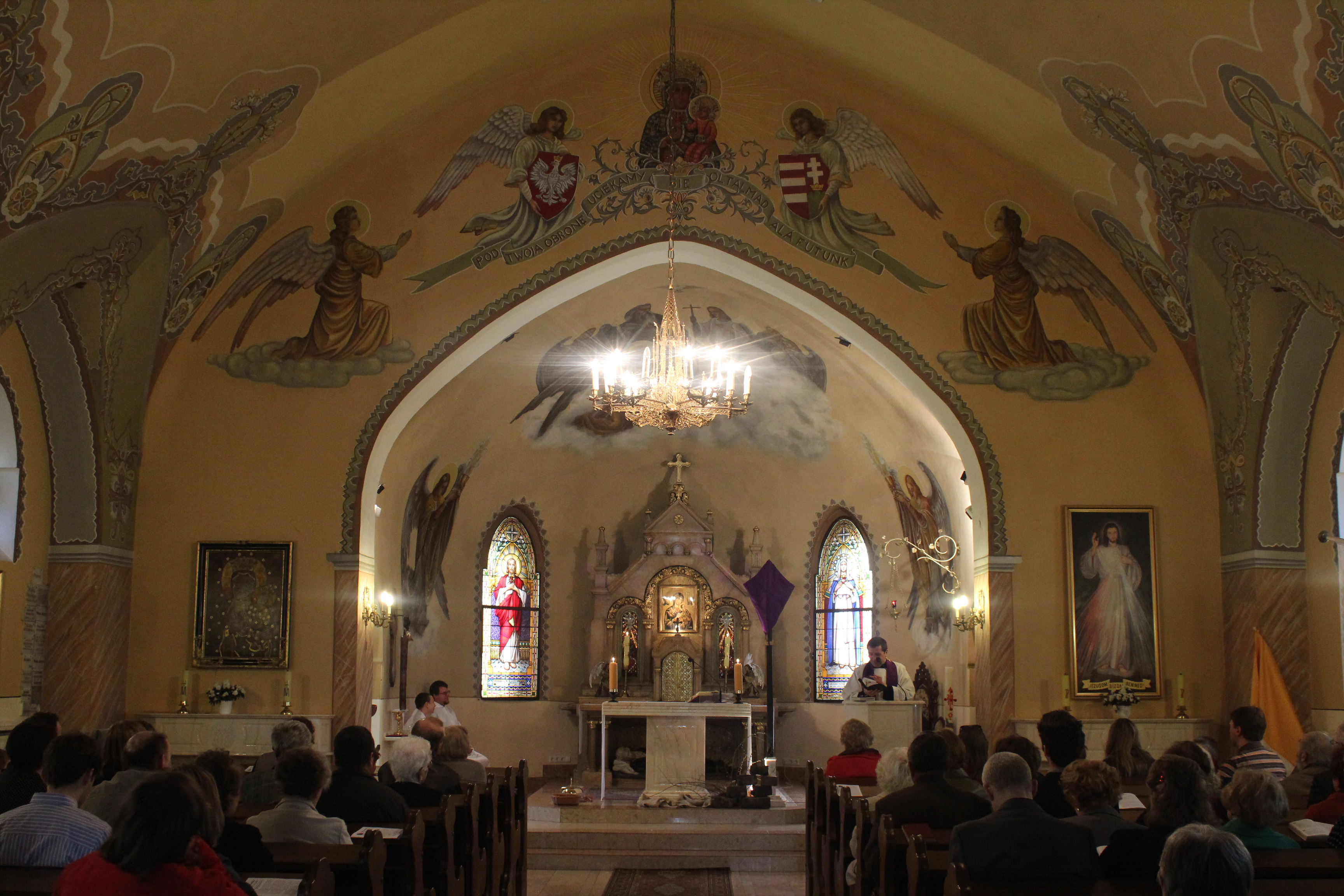 Polish church in Kőbánya, Budapest